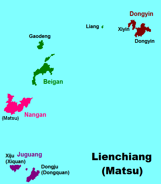 Map of administrative division of Lienchiang District